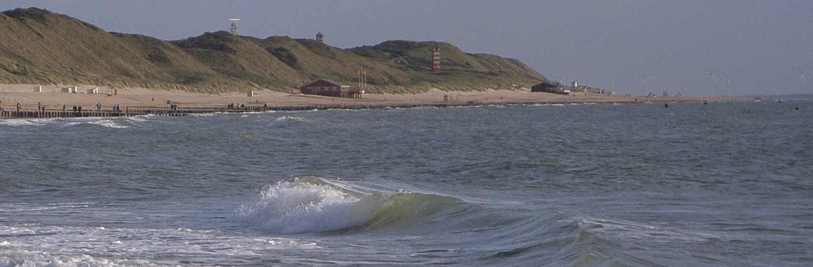 Beach at Dishoek, NL